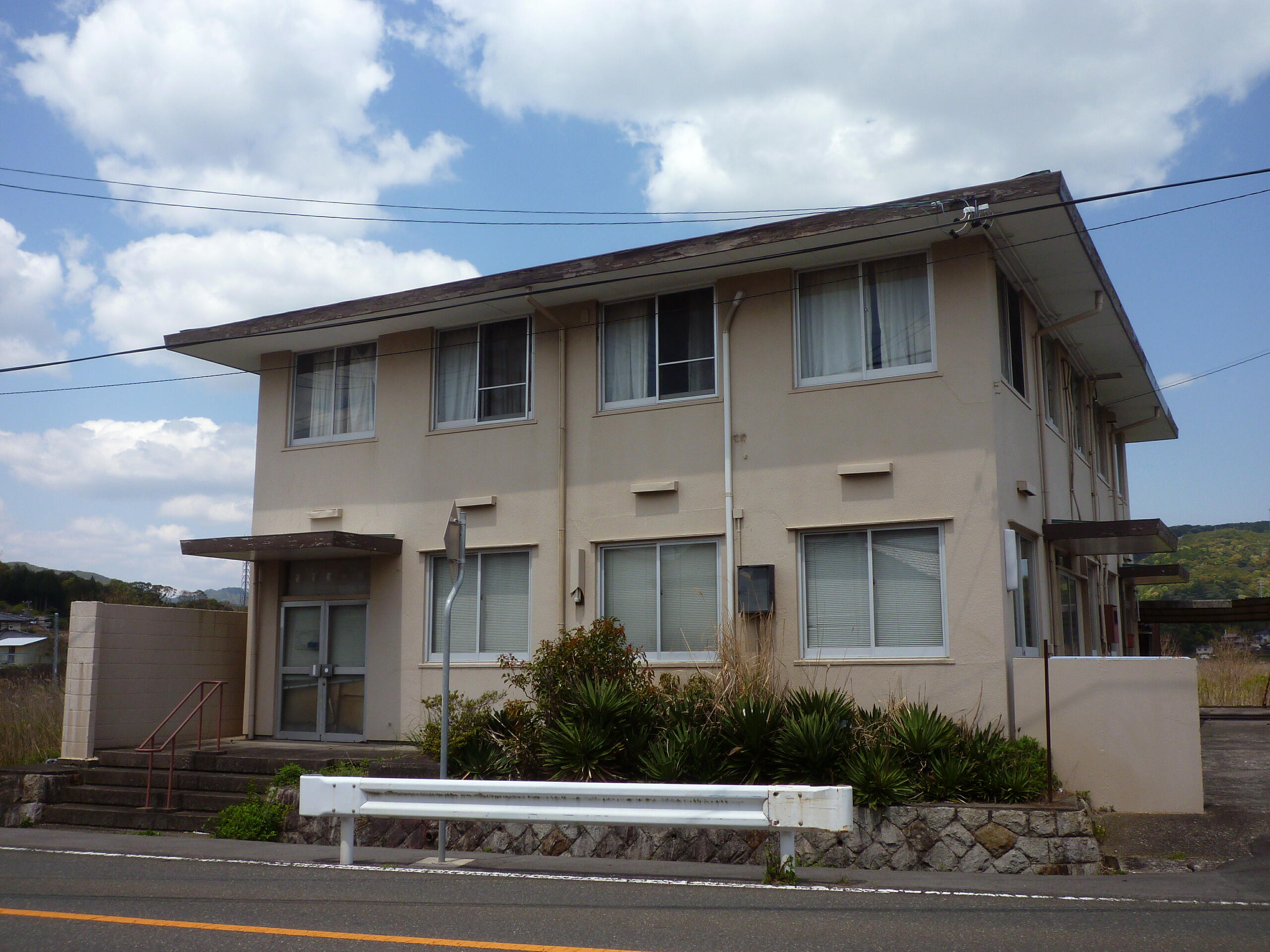 Old building of the "Isobe Post Office" in Erihara, Isobe-chō, Shima City, Mie Prefecture, Japan.This is a building built in 1962.